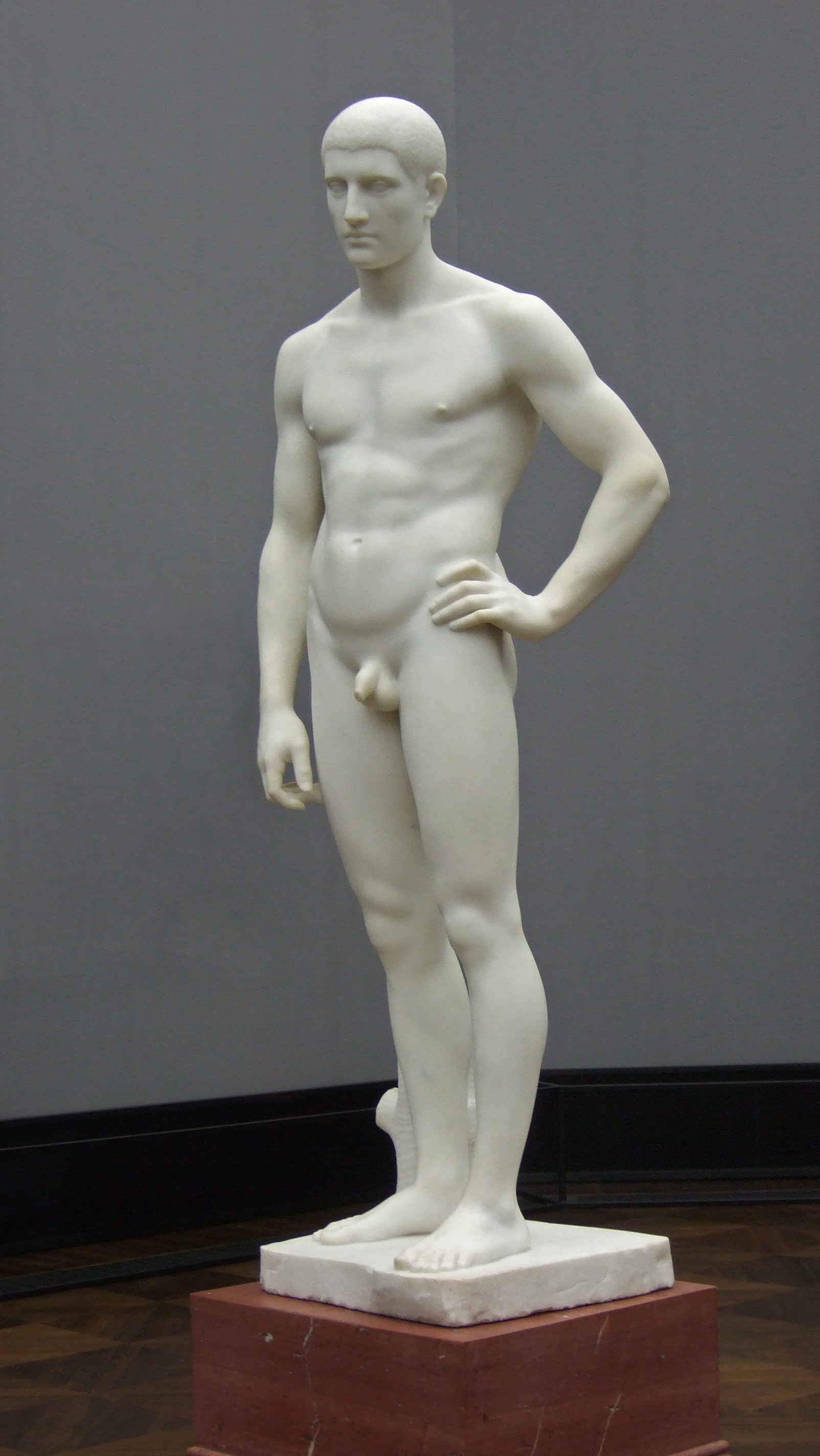 Standing Young Man by Adolf von Hildebrand (1881-84). Marble. National Gallery, Berlin.